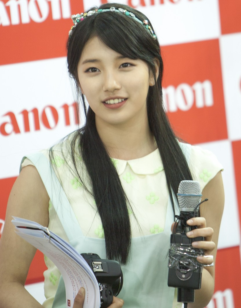 Bae Suzy on 6 April 2013